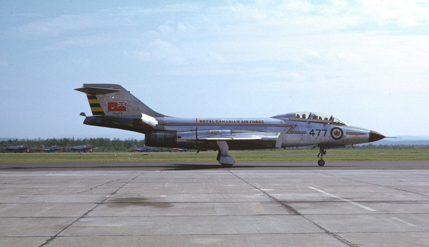 RCAF CF-101B Voodoo (17477) taken in summer 1962 at the Bagotville Air Pageant.